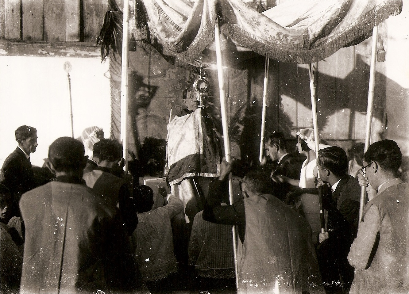 Corpus Christi procession promoted by the Confraternity of the Santíssimo of the Matrix of Pirenópolis in 1930.